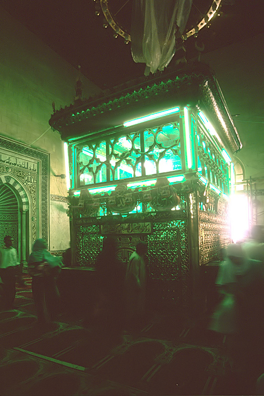 Tomb in the Sidi Ahmad el-Badawy mosque in Tanta, Egypt